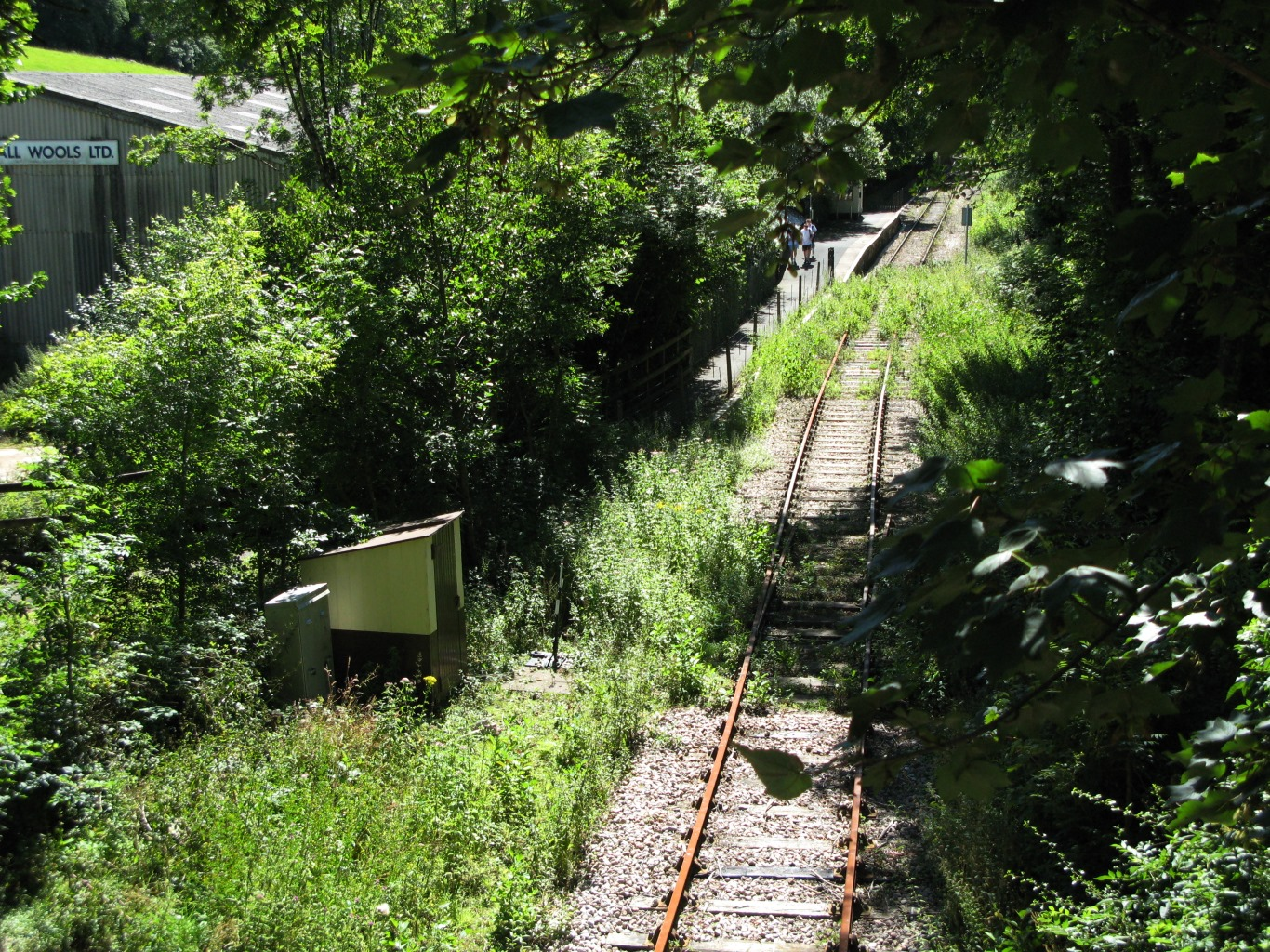 View of Coombe railway station near Liskeard, Cornwall, United Kingdom. The hut on the left is Coombe Number 2 Ground Frame, which controls movements to the cement terminal at Moorswater (behind the camera). The station is seen beyond the ground frame on the left.